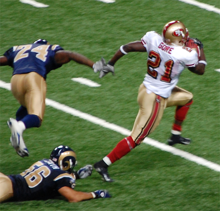 Frank Gore breaking through tackles and sprinting past the St. Louis Rams Defense for a touchdown on a 4th down and short play.